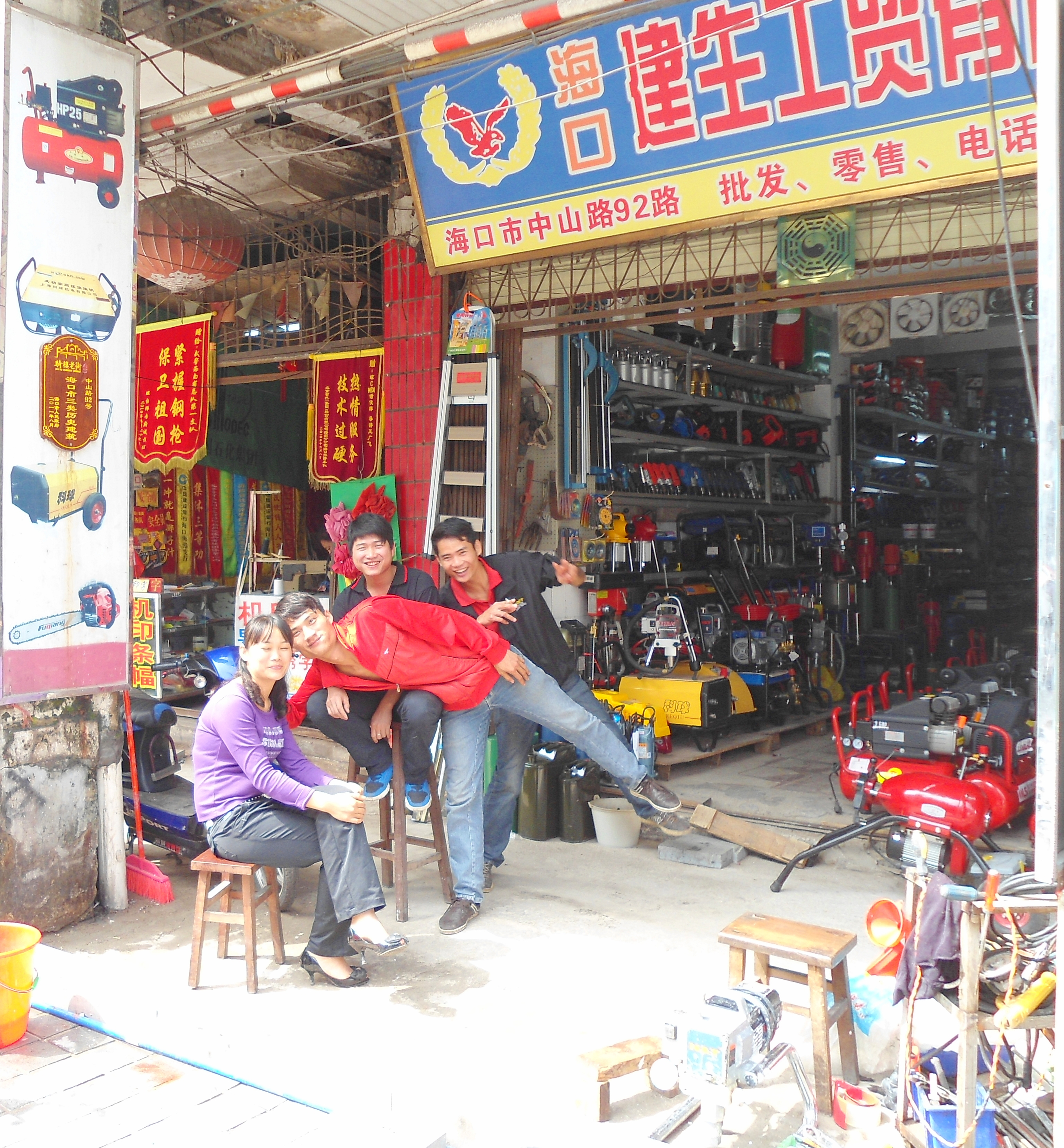 Hardware store in China specializing in generators, etc. in Haikou, Hainan Province, People's Republic of China